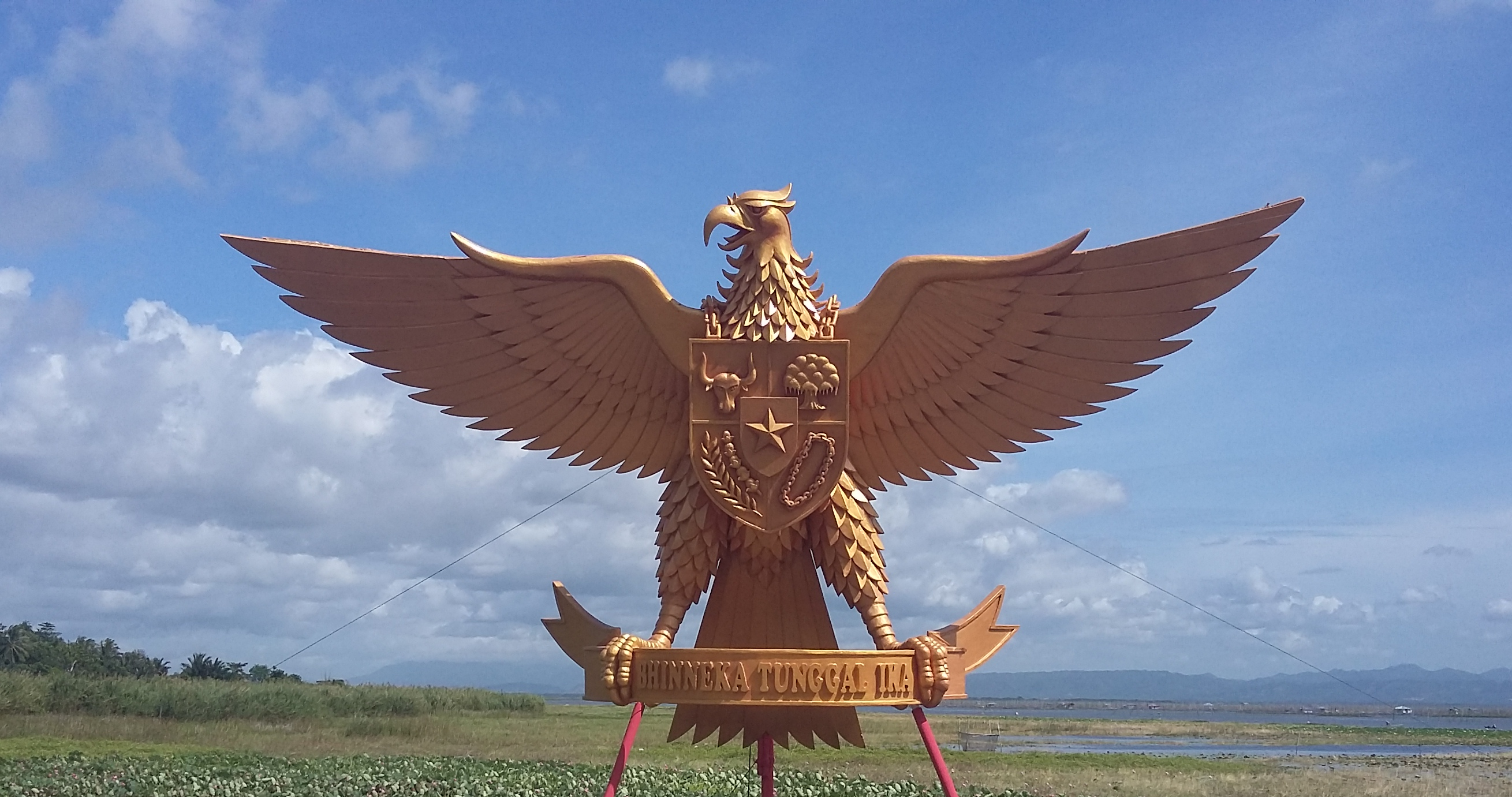 Replica statue of Garuda Pancasila golden yellow color was on display at the dock landing the seaplane that flew President Sukarno to Iluta village, district Batudaa, Gorontalo regency. Motto: "Bhinneka Tunggal Ika" (